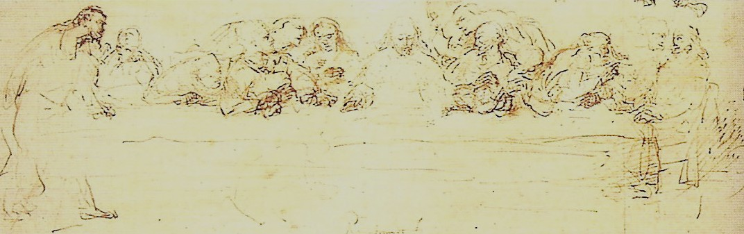 Drawing of the Last Supper